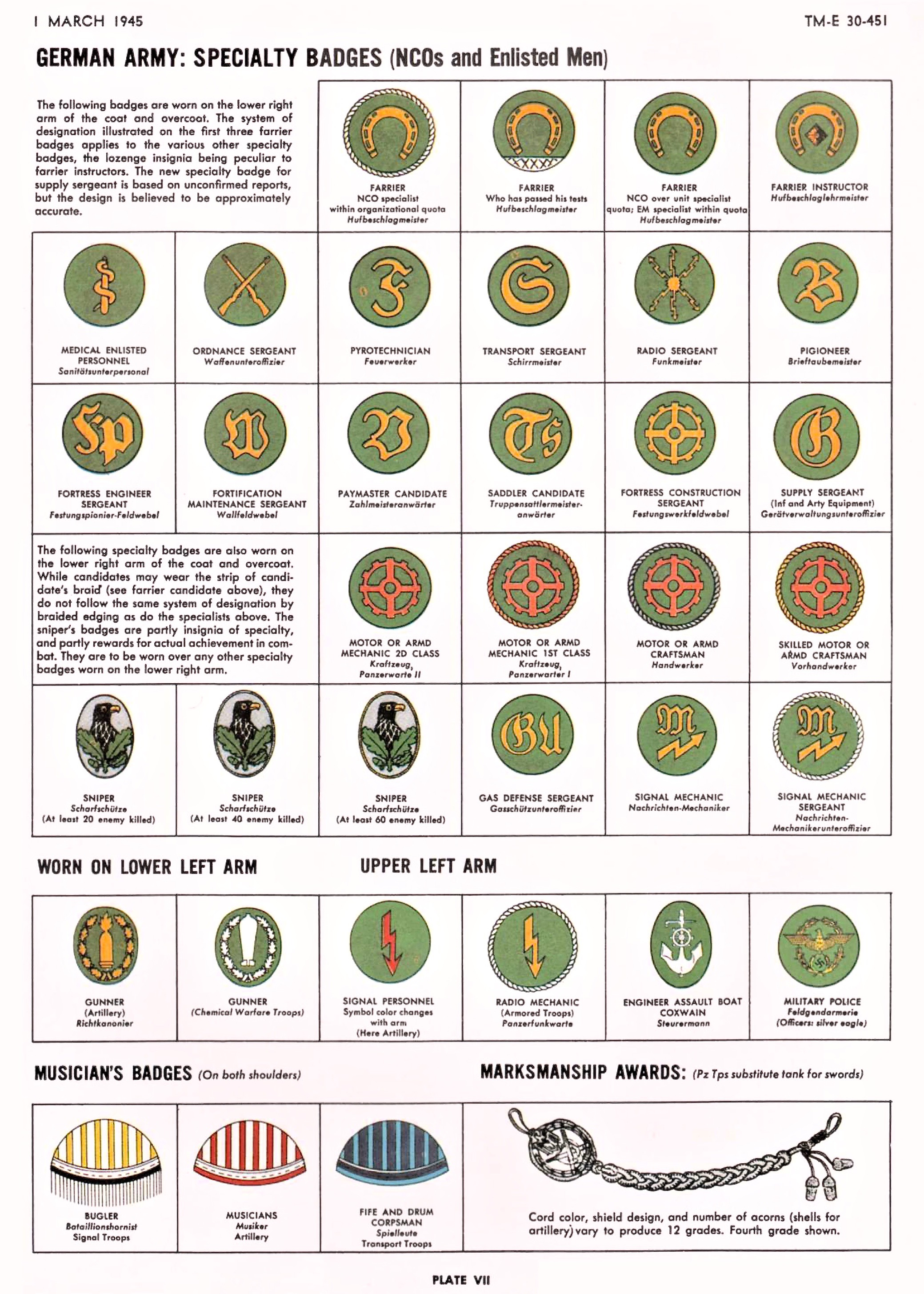 "Handbook on German Military Forces" (US War Dep 1945): Plate VII – German Army (WW2 Wehrmacht Heer): Specialty badges (NCOs and enlisted men); worn on lower left arm; upper left arm; Musician's badges on both shoulders; Markmanship awards.Uniform plate from "TM-E 30-451 "Handbook on German Military Forces TM-E 30-451, a technical manual published by the U.S. War Department on 15 March 1945 in a loose-leaf format to facilitate revision. The purpose of the handbook was to give officers and enlisted men of the U.S. Army a better understanding of their principal enemy in Europe, and the material was based on information available up to 15 February 1945.The illustrations show Wehrmacht uniforms etc. of Nazi Germany during the Second World War, i. e. for the men in the Heer (German Army), the Kriegsmarine (German Navy), and the Luftwaffe (German Air Force), as well as uniforms of the Waffen-SS (Armed Elite Guard). The U.S. Government produced material was originally restricted but later declassified. The document is now in the Public Domain and can be shared under the Creative Commons license. Legal disclaimer This image shows (or resembles) a symbol that was used by the National Socialist (NSDAP/Nazi) government of Germany or an organization closely associated to it, or another party which has been banned by the Federal Constitutional Court of Germany. The use of insignia of organizations that have been banned in Germany (like the Nazi swastika or the arrow cross) are also illegal in Austria, Hungary, Poland, Czech Republic, France, Brazil, Israel, Ukraine, Russia and other countries, depending on context. In Germany, the applicable law is paragraph 86a of the criminal code (StGB), in Poland – Art. 256 of the criminal code (Dz.U. 1997 nr 88 poz. 553).